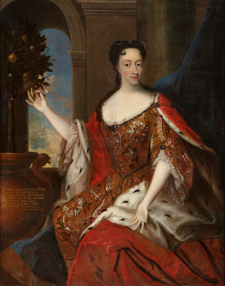 Portrait of Princess Sophie Hedvig of Denmark, daughter of King Christian V and Queen Consort Charlotte Amalie